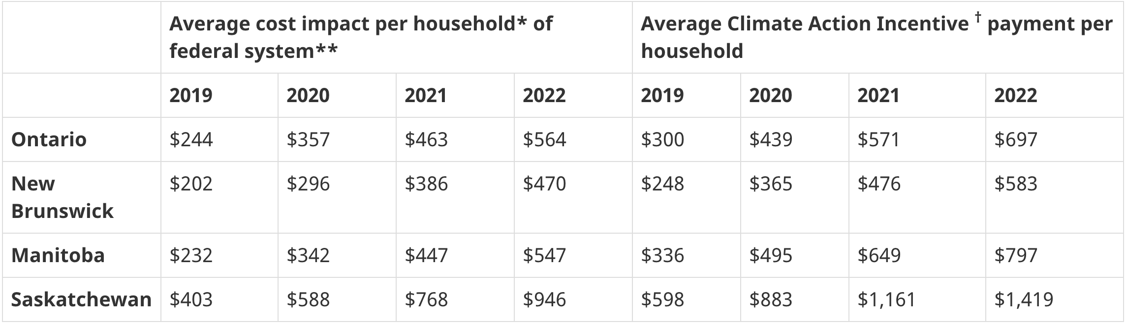 Expected Costs and Rebates for Canadians in Eligible Provinces